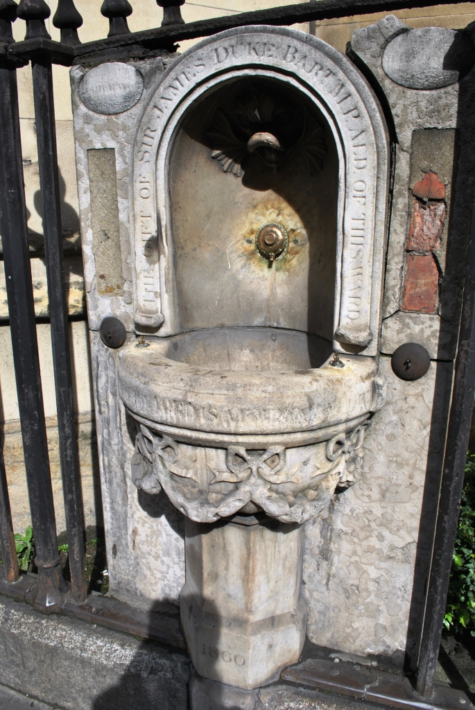 Church of St Dunstan in the West (including Attached Sunday School)